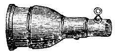 Swedish six-pound hand granate mortar, constructed in 1705